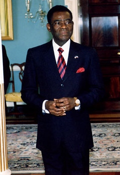 His Excellency Teodoro Obiang Nguema Mbasogo, President of the Republic of Equatorial Guinea